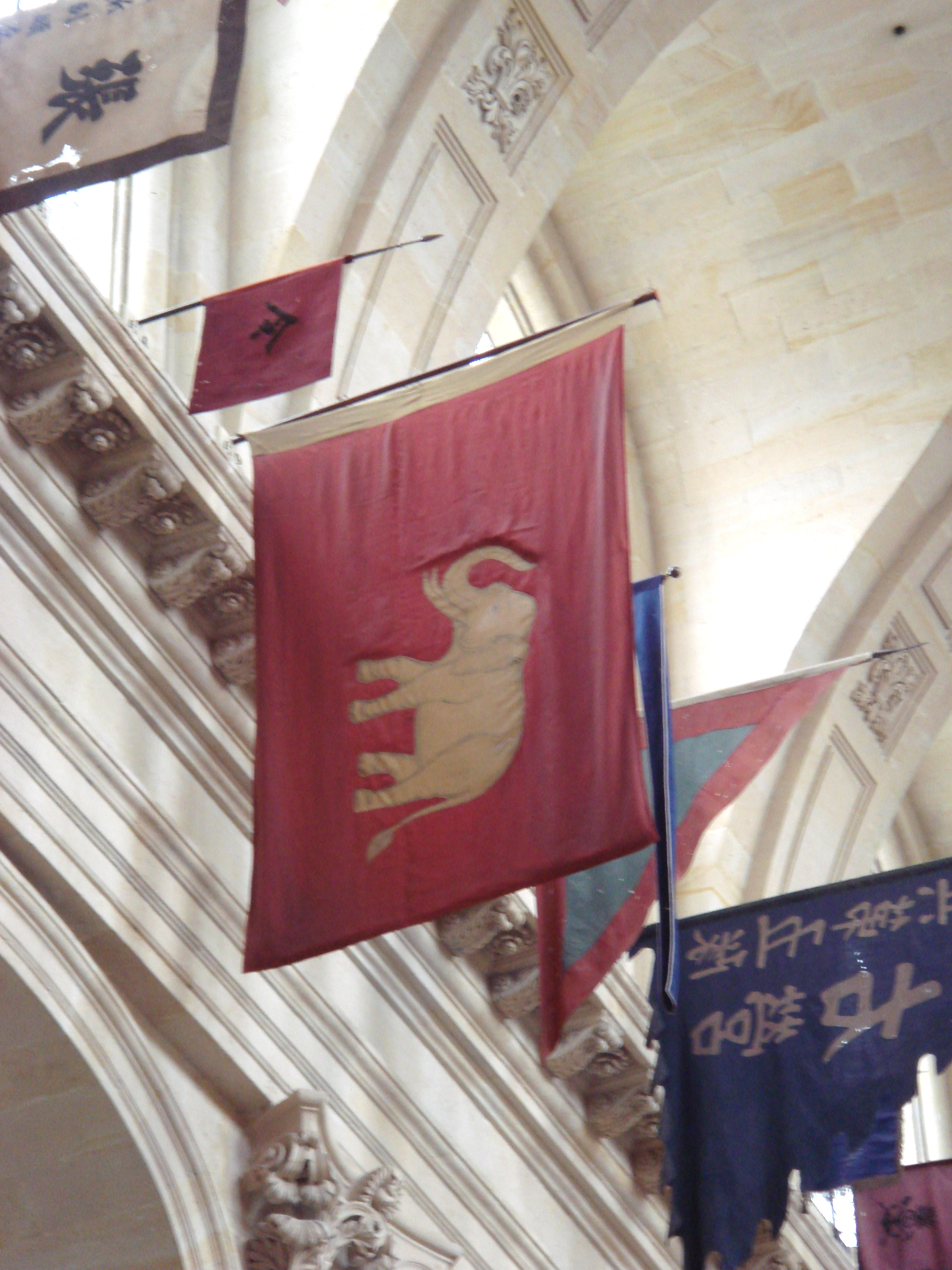 Thailand flag trophy at Les Invalides